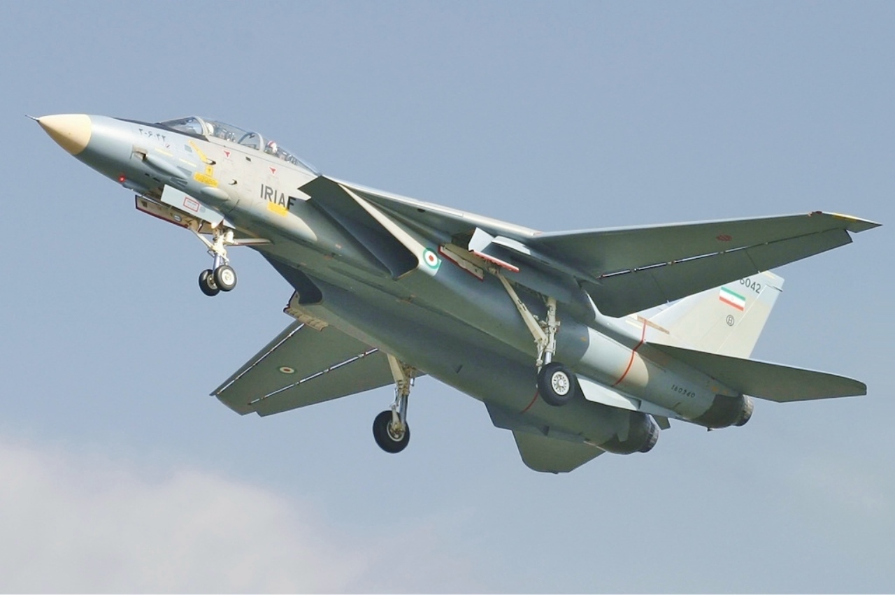 Iranian Air Force Grumman F-14A Tomcat